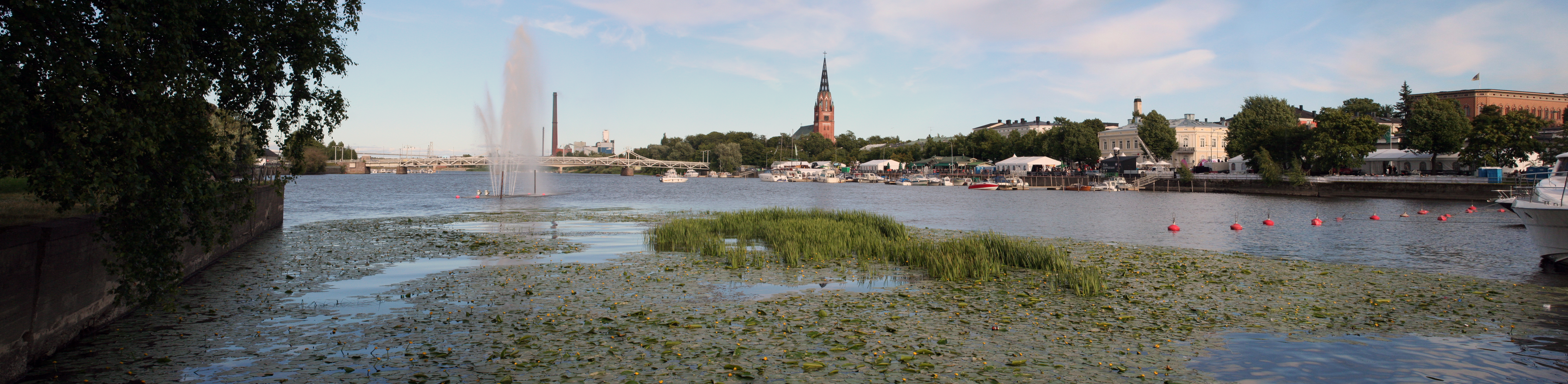 Pori seen over River Kokemäenjoki 2013. Pori Jazz festival.